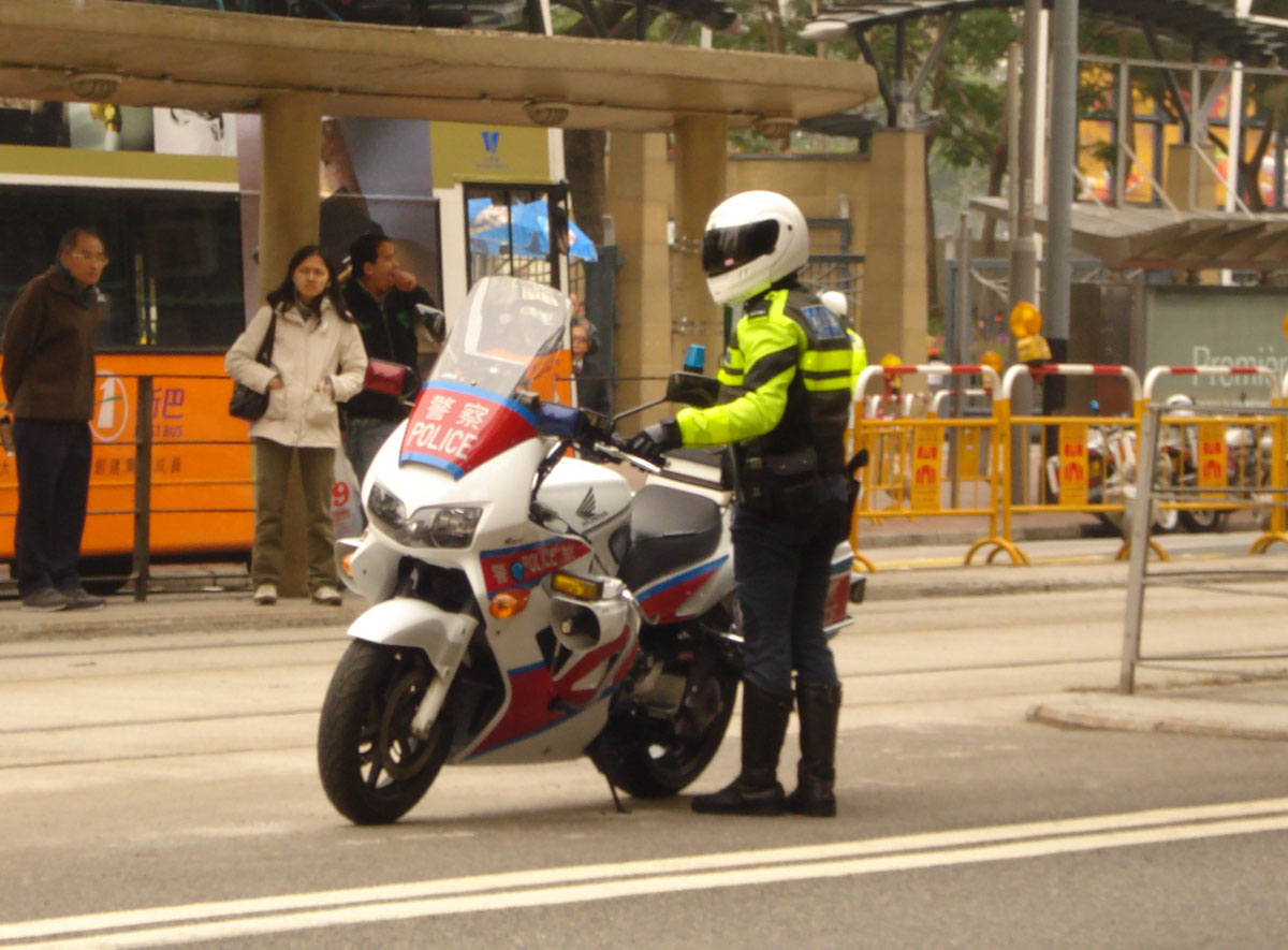 Hong Kong Traffic Police